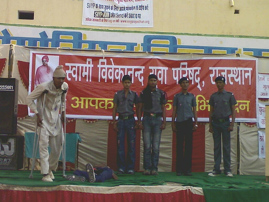 It is created by me(User:Shemaroo ,Sivender Singh).In this image you can see a cultural programme organised by a social organisation. Shemaroo (talk) 11:31, 2 January 2011 (UTC)